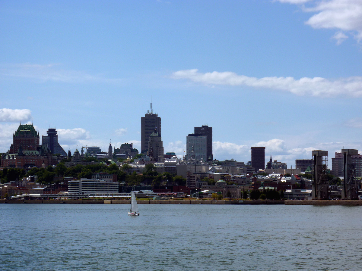 Quebec City View , Quebec (QC) Canada